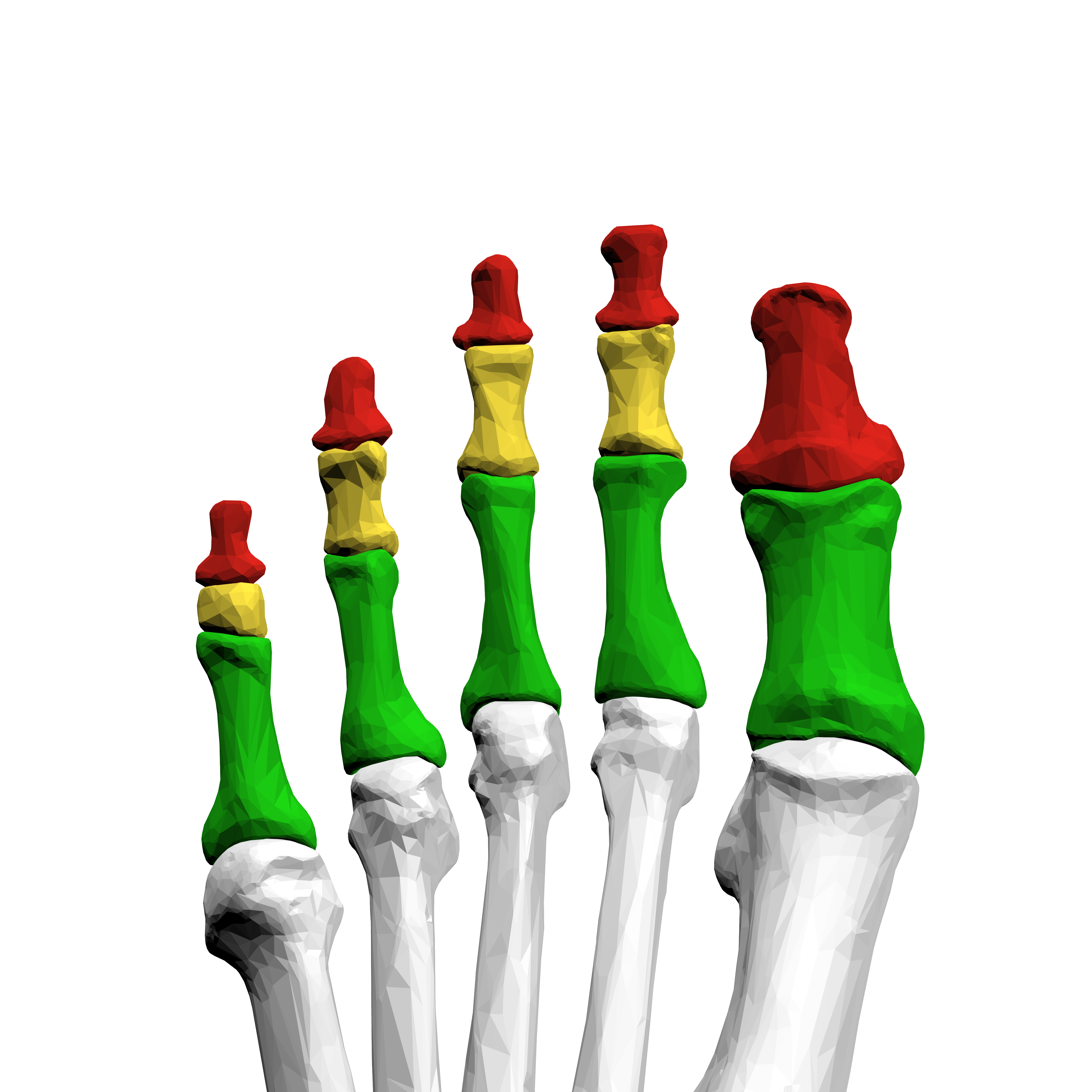 Phalanges of foot Distal phalanges of foot Middle phalanges of foot Proximal phalanges of foot